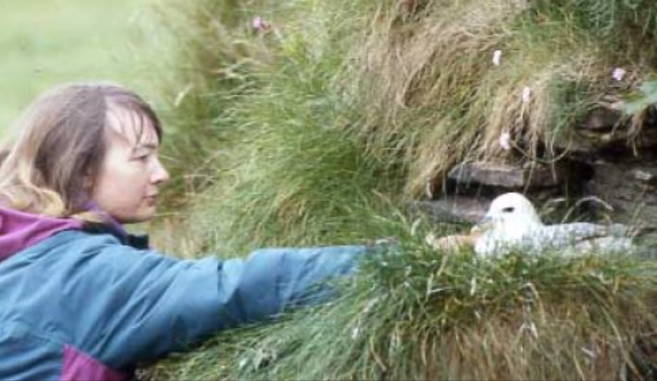 GB showing how tame a wild fulmar can be nestingon a low cliff face on the Orkney (early 1970’s)